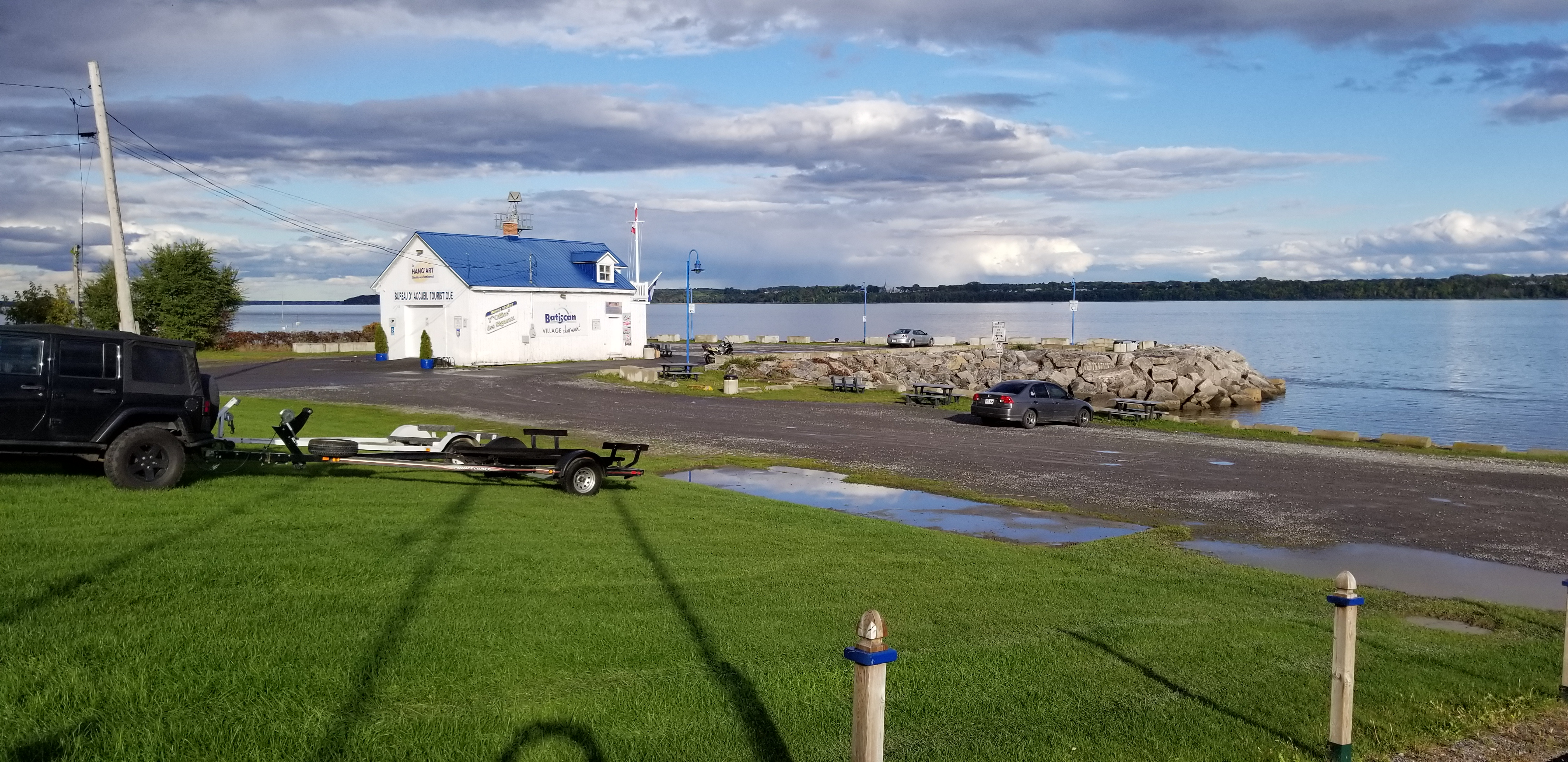 Public wharf on the St. Lawrence River downstream from the village of Batiscan. View from Highway 138.